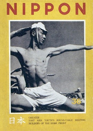 NIPPON magazine, No. 36